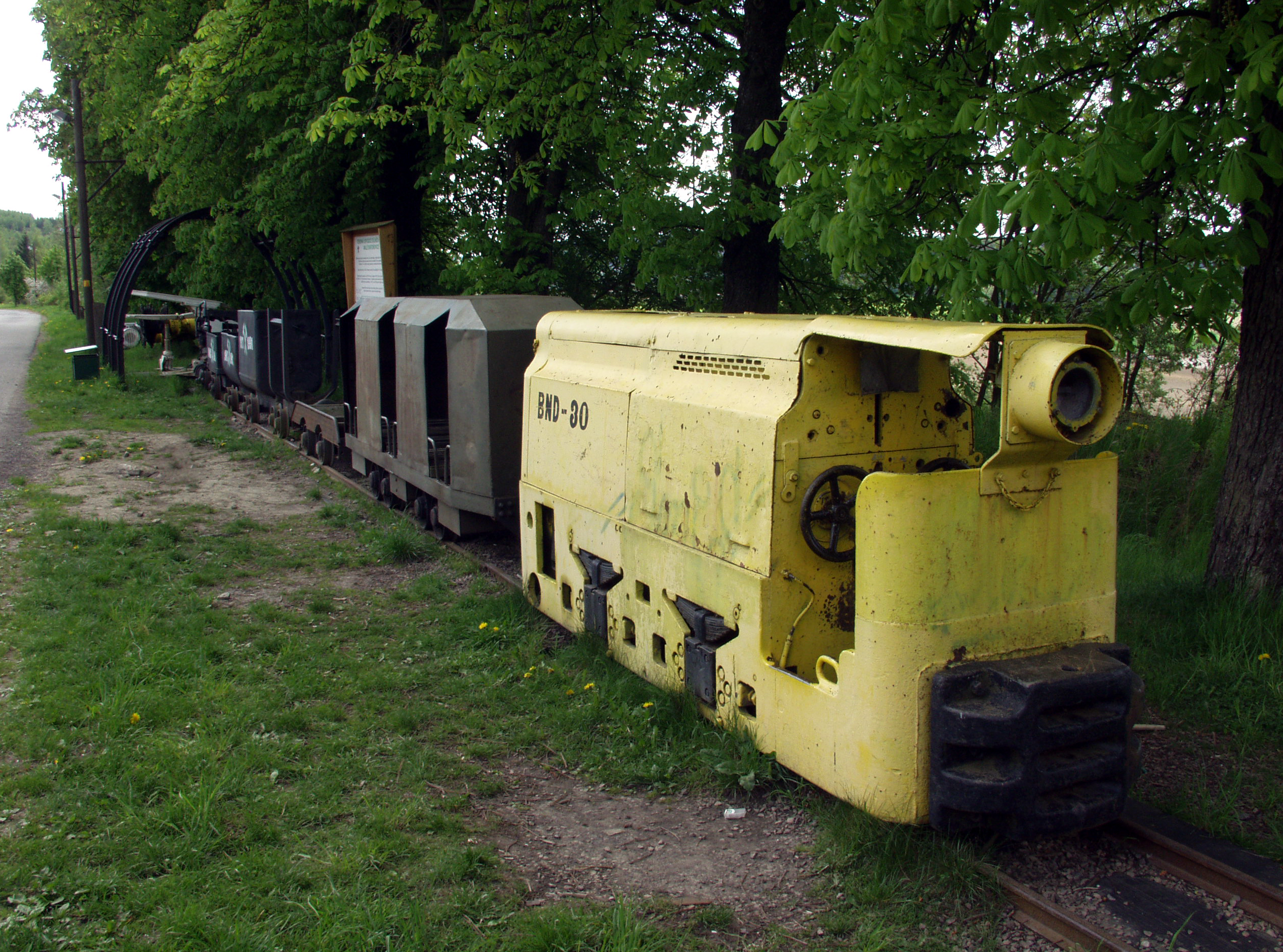 Malé Svatoňovice - the exposition of the mining machines.